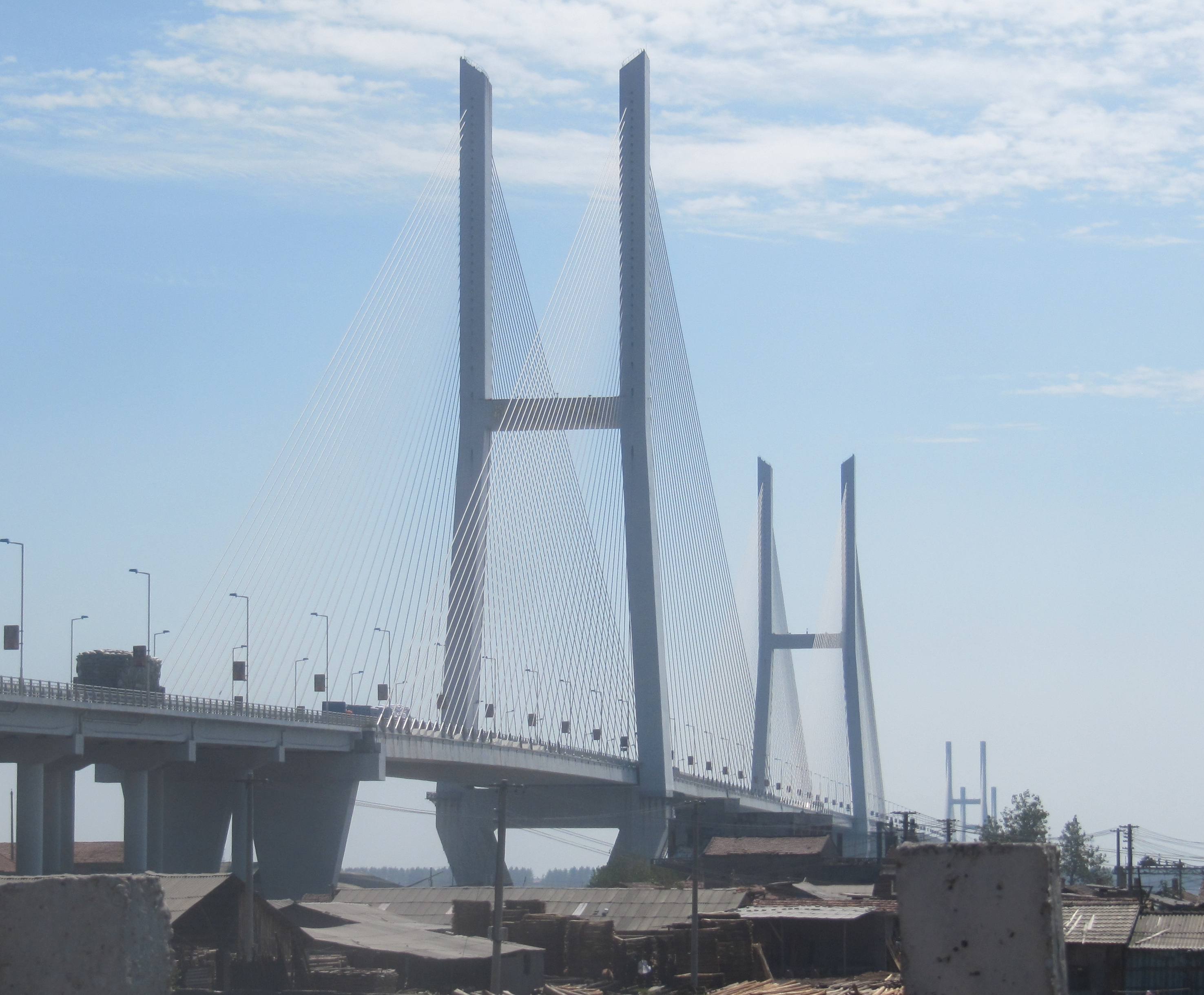 Jingzhou Changjiang Bridge